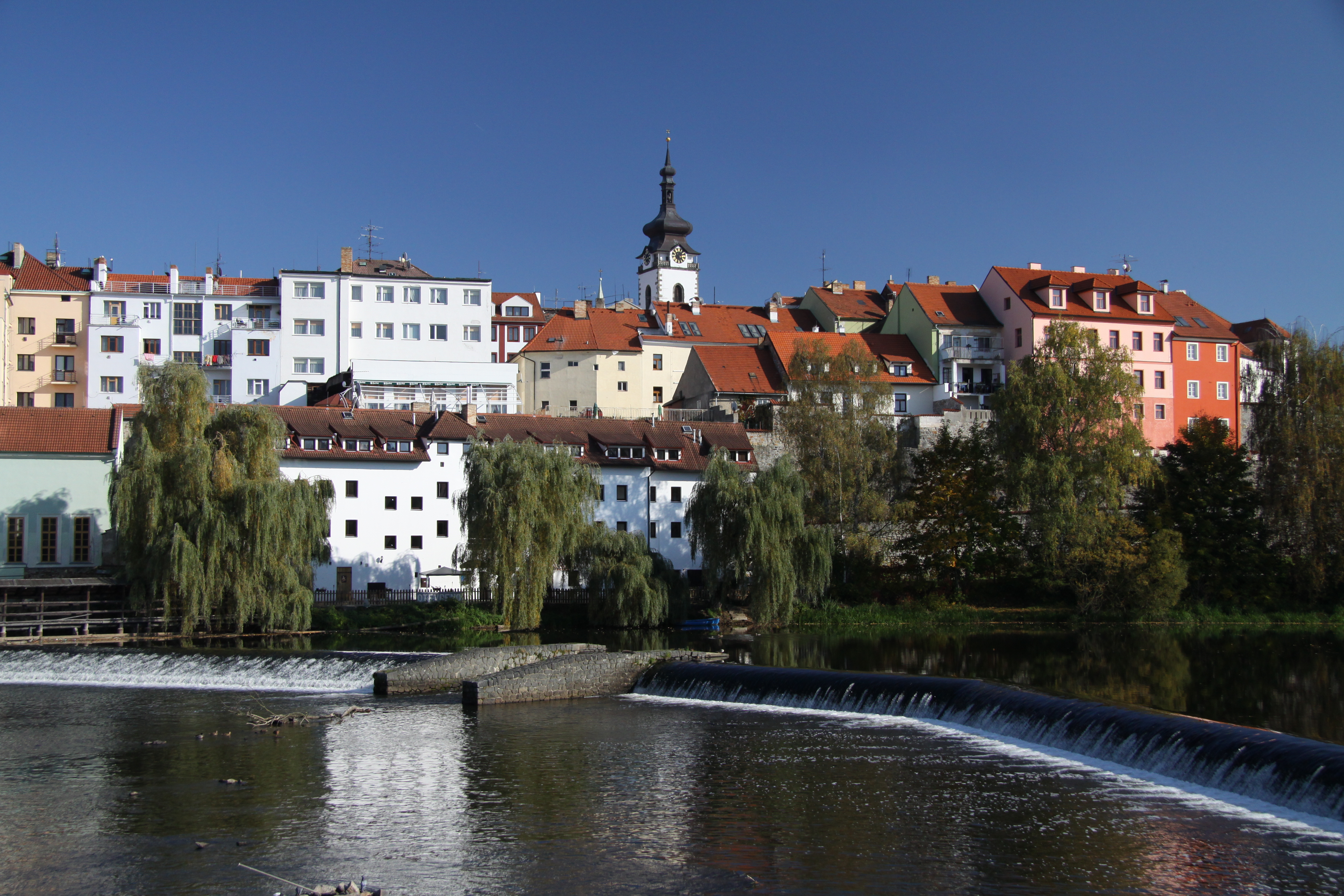 View of inner old town, Písek, Czech Republic